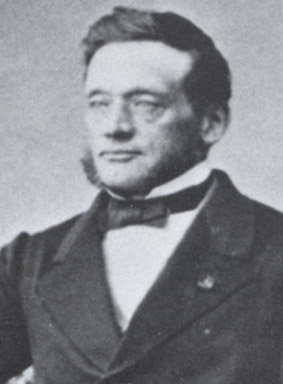 Pieter Philip van Bosse (* 16th December 1809 in Amsterdam; † 21st February 1879 in The Hague)